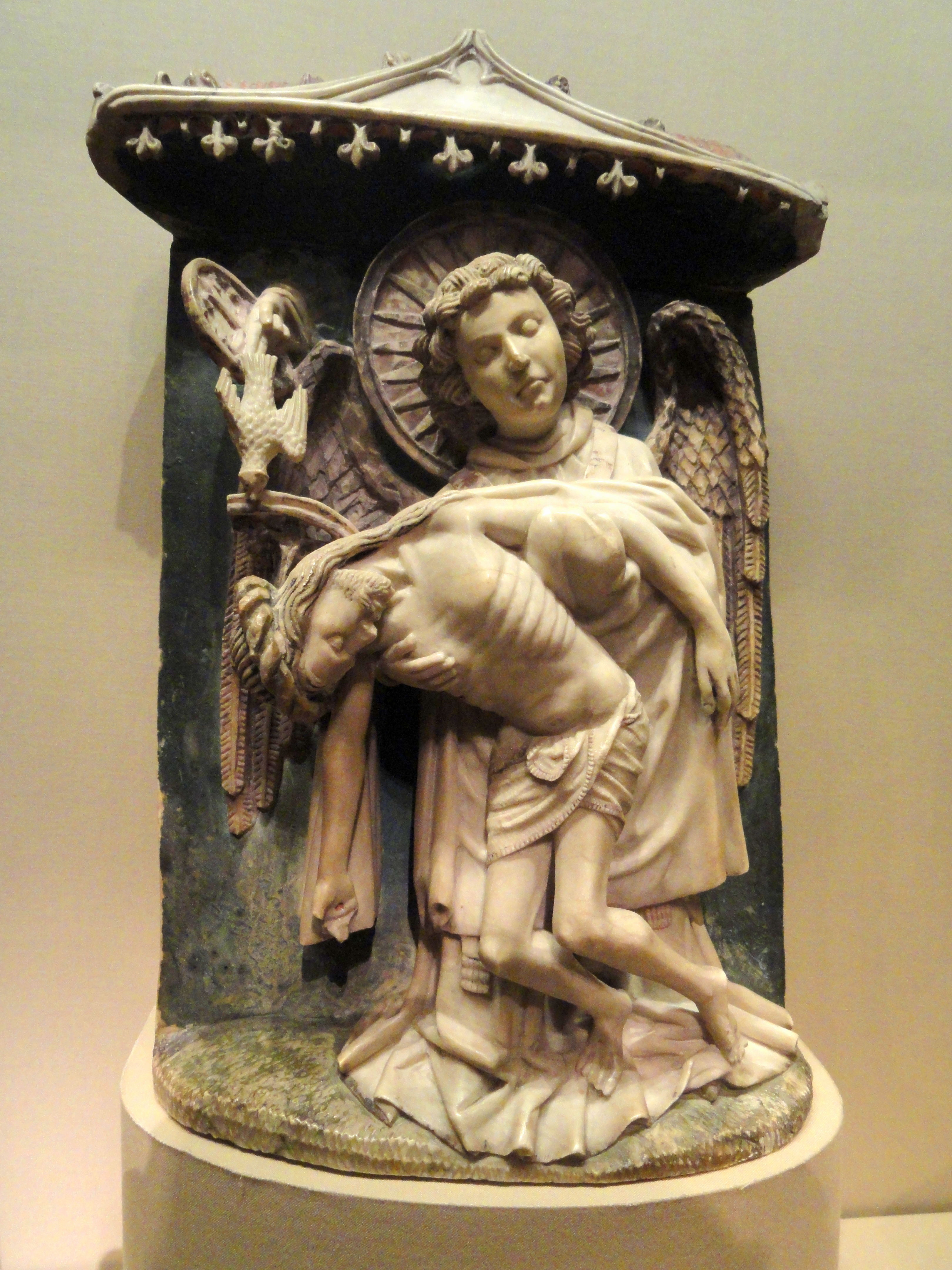 Exhibit in the National Gallery of Art, Washington, DC, USA. This artwork is in the public domain because the artist died more than 70 years ago.